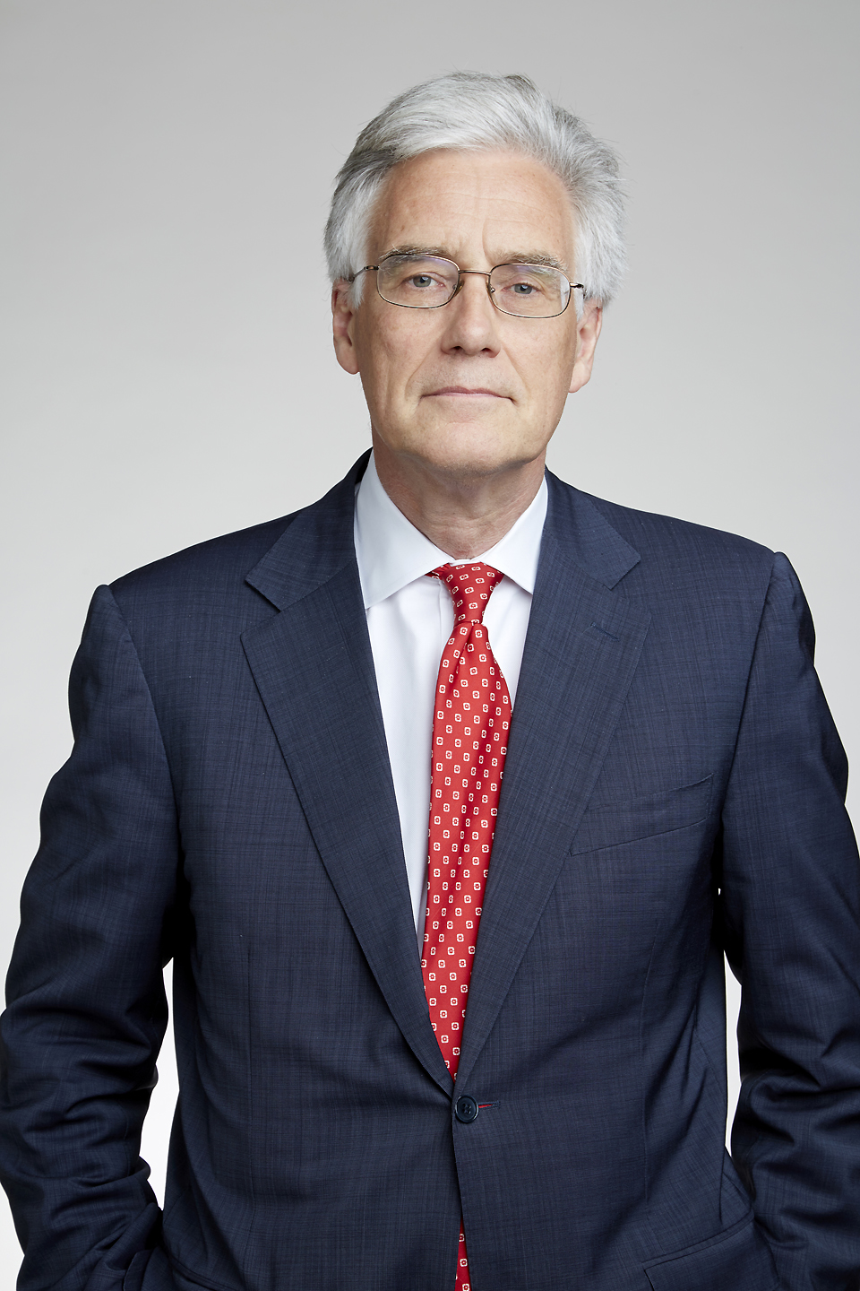 Jonathan Adair Turner, Baron Turner of Ecchinswell (born 5 October 1955) is a British businessman, academic and was Chairman of the Financial Services Authority until its abolition in March 2013 Attribution: The Royal Society